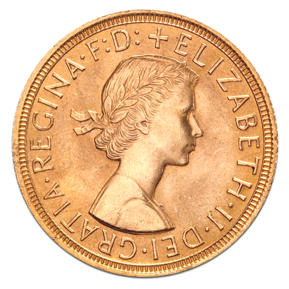 Image of a Sovereign from 1958 with the portrait of Elizabeth II.